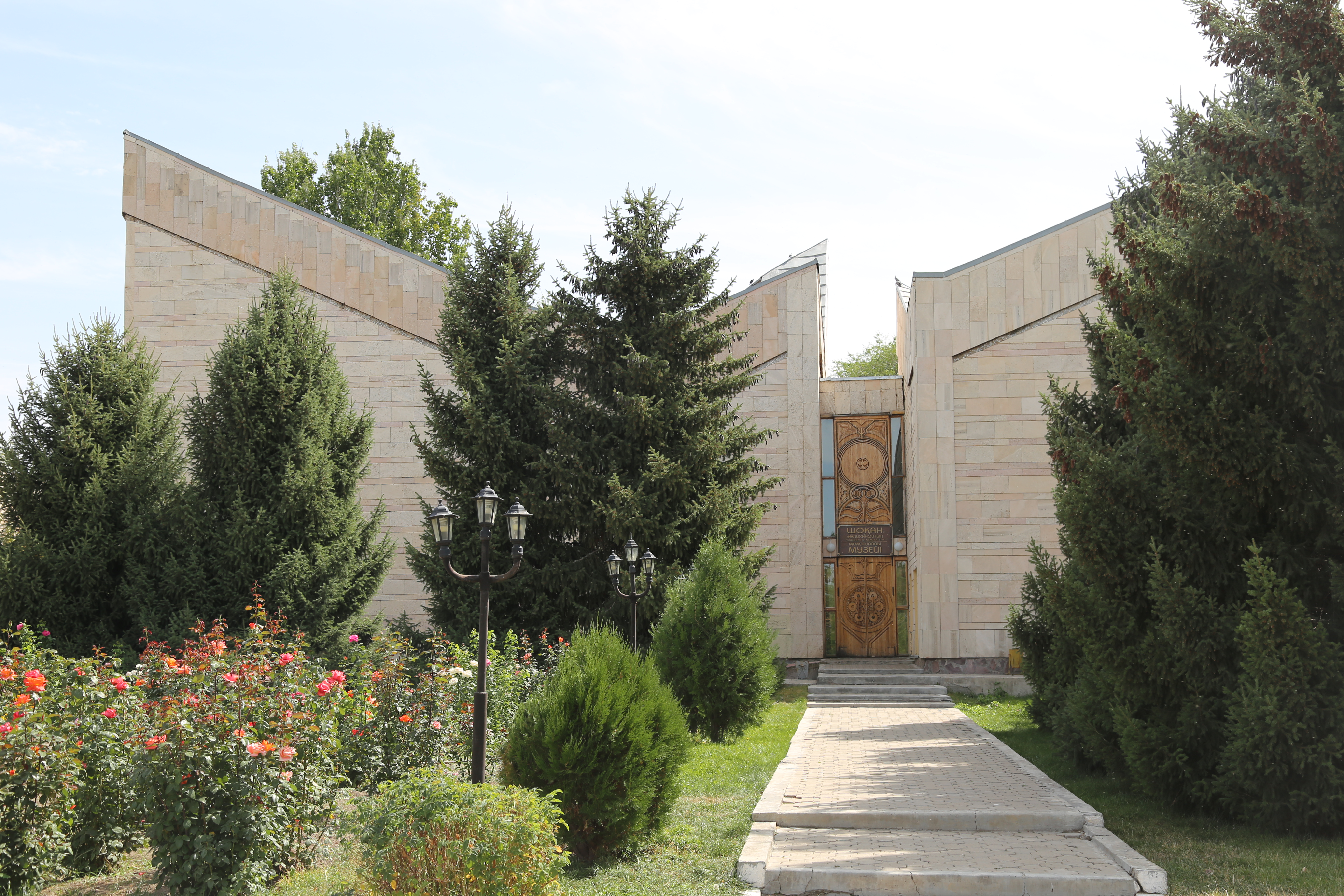 Shokan Ualikhanov Museum